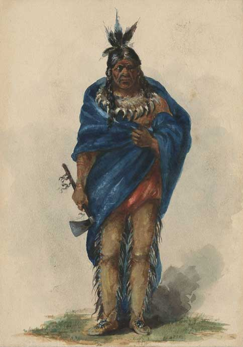 Pencil and watercolor by unknown artist